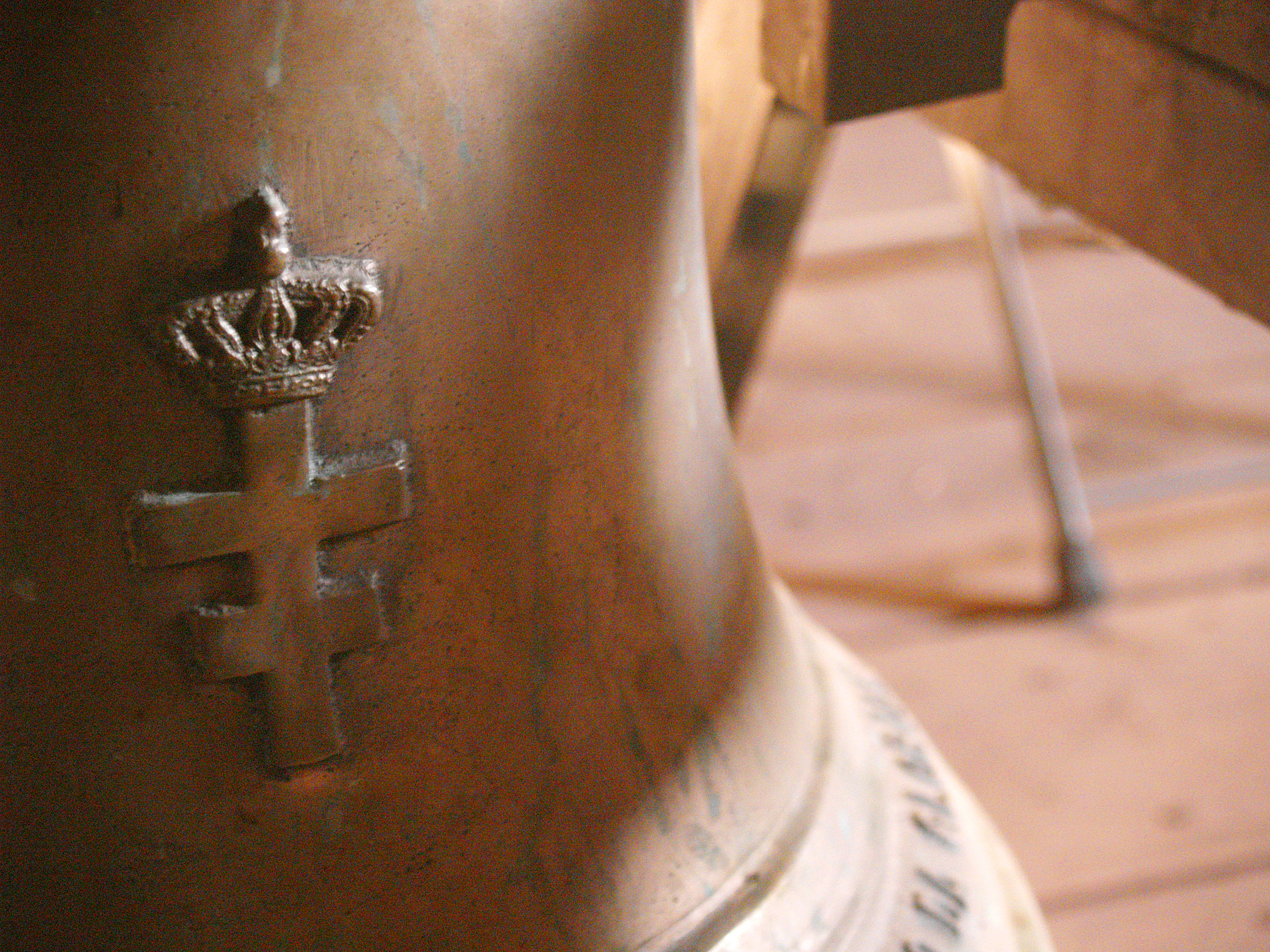 temple church mücheln (saxony-anhalt), church bell with the symbol of the temple society; can be found on the church's attic